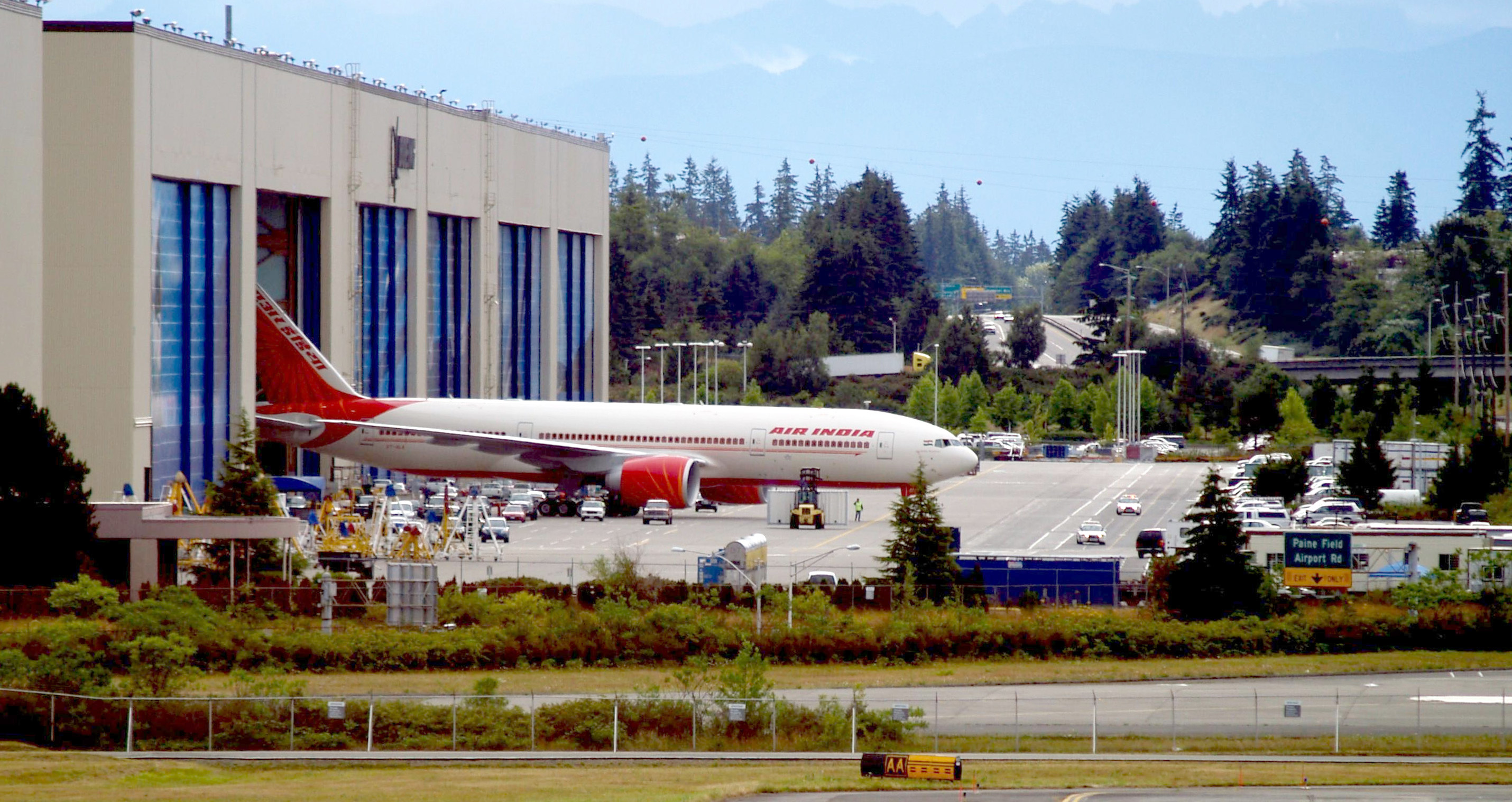 777 rolled out at Boeing factory.